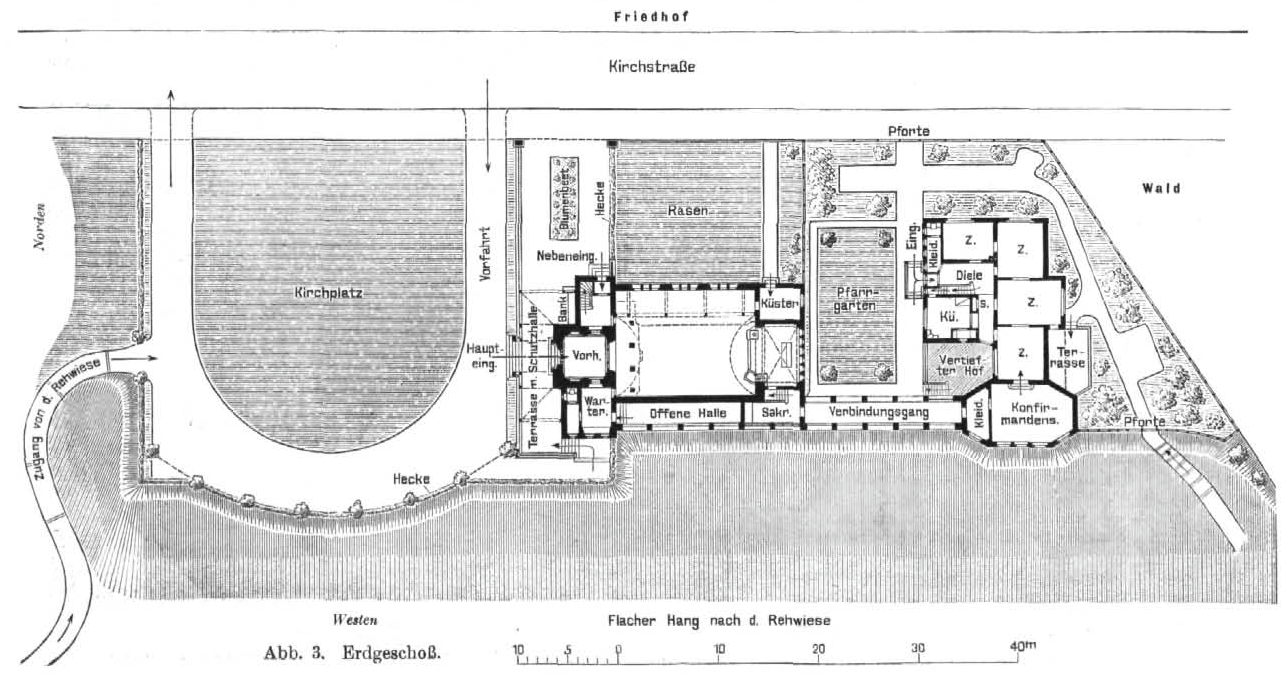 Kirche Nikolassee, Grundriss Erdgeschoss